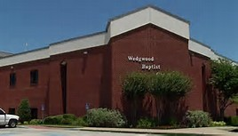 This image depicts the location of the shooting, Wedgewood Baptist Church.